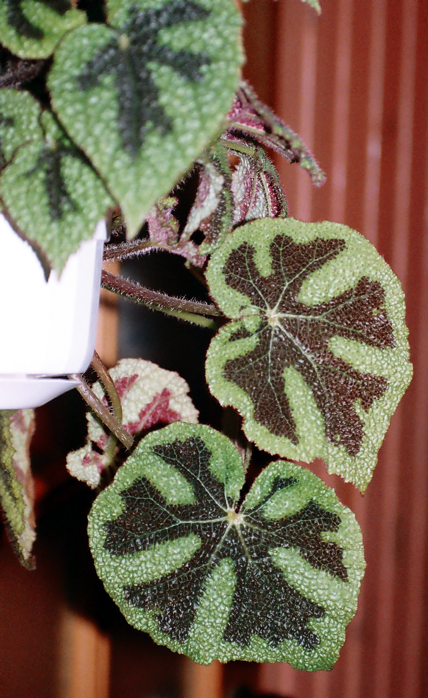 Begonia masoniana (also known as 'Iron Cross').